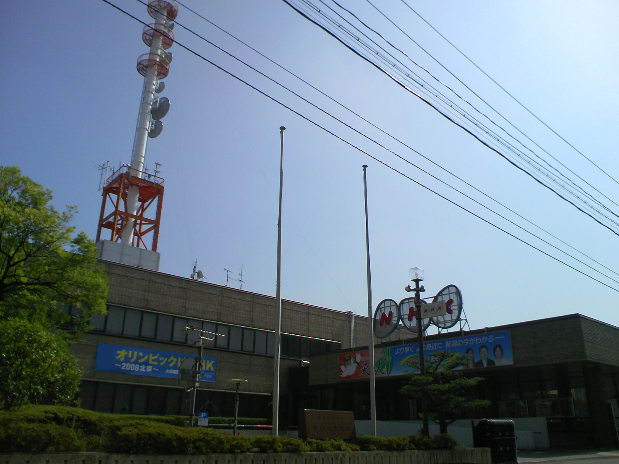 NHK Nigata